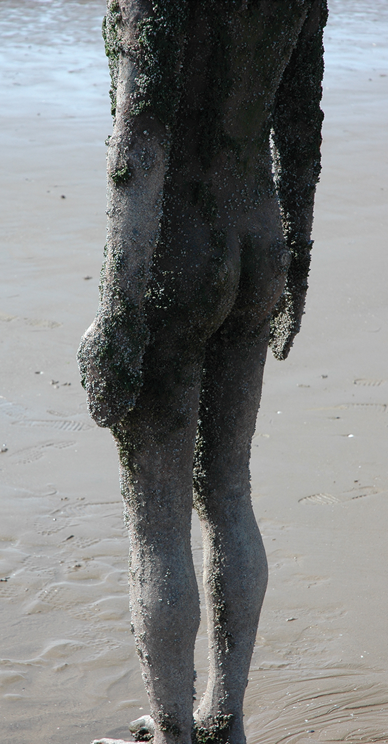 Life-size cast-iron statue at Crosby Beach, Liverpool. One of the 100 statues that form the art installation ‘Another Place’, located at a lower shore height and with Austrominius modestus barnacles growing on it. The statues stretch over approximately 3 km of the foreshore and are distributed at a range of tidal heights.